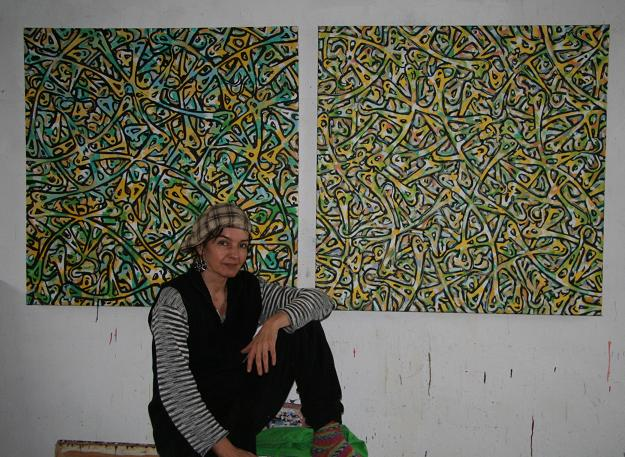 Gabriela Dauerer in her atelier